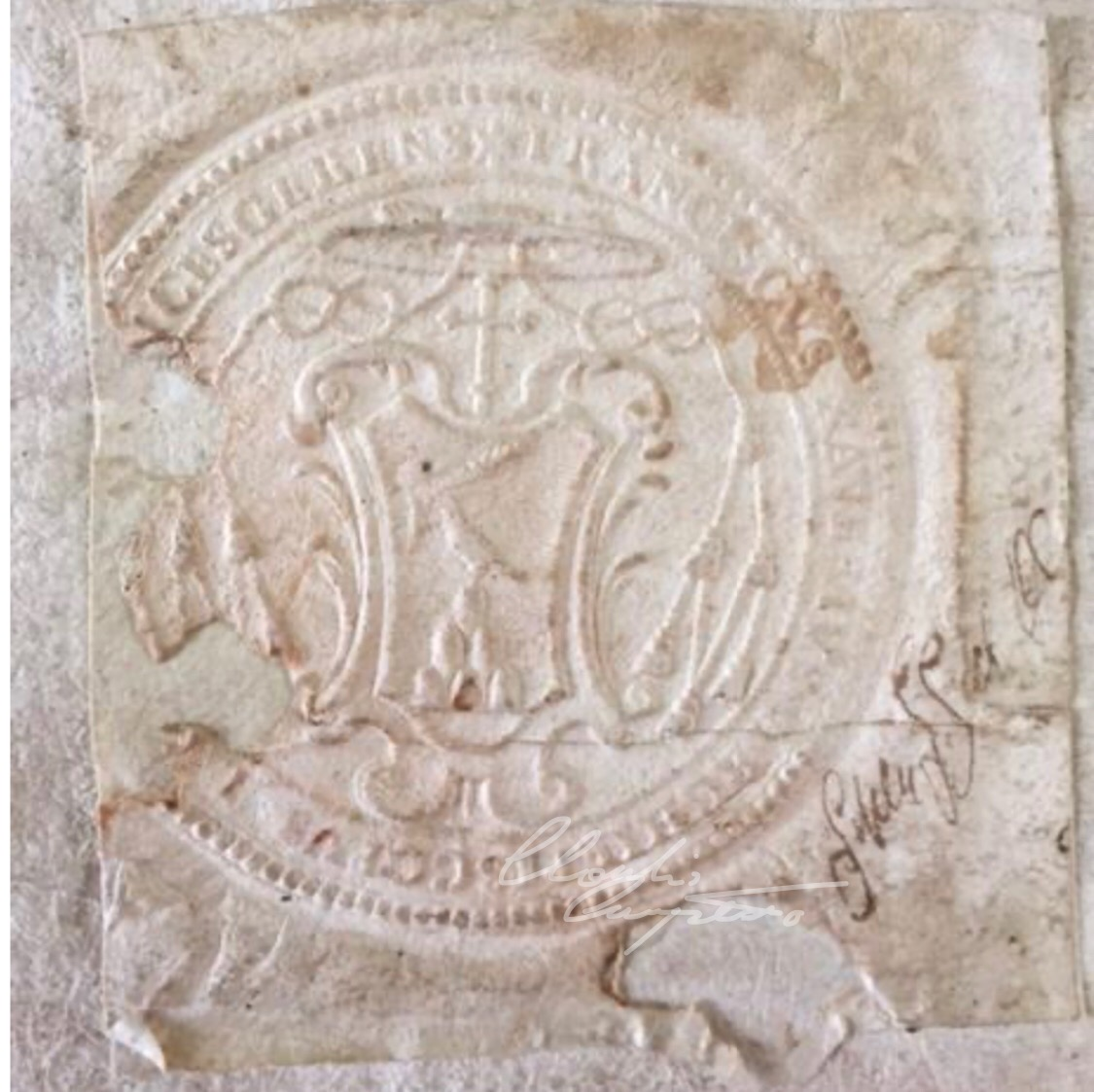 coat of arms of Francesco Saverio Passari